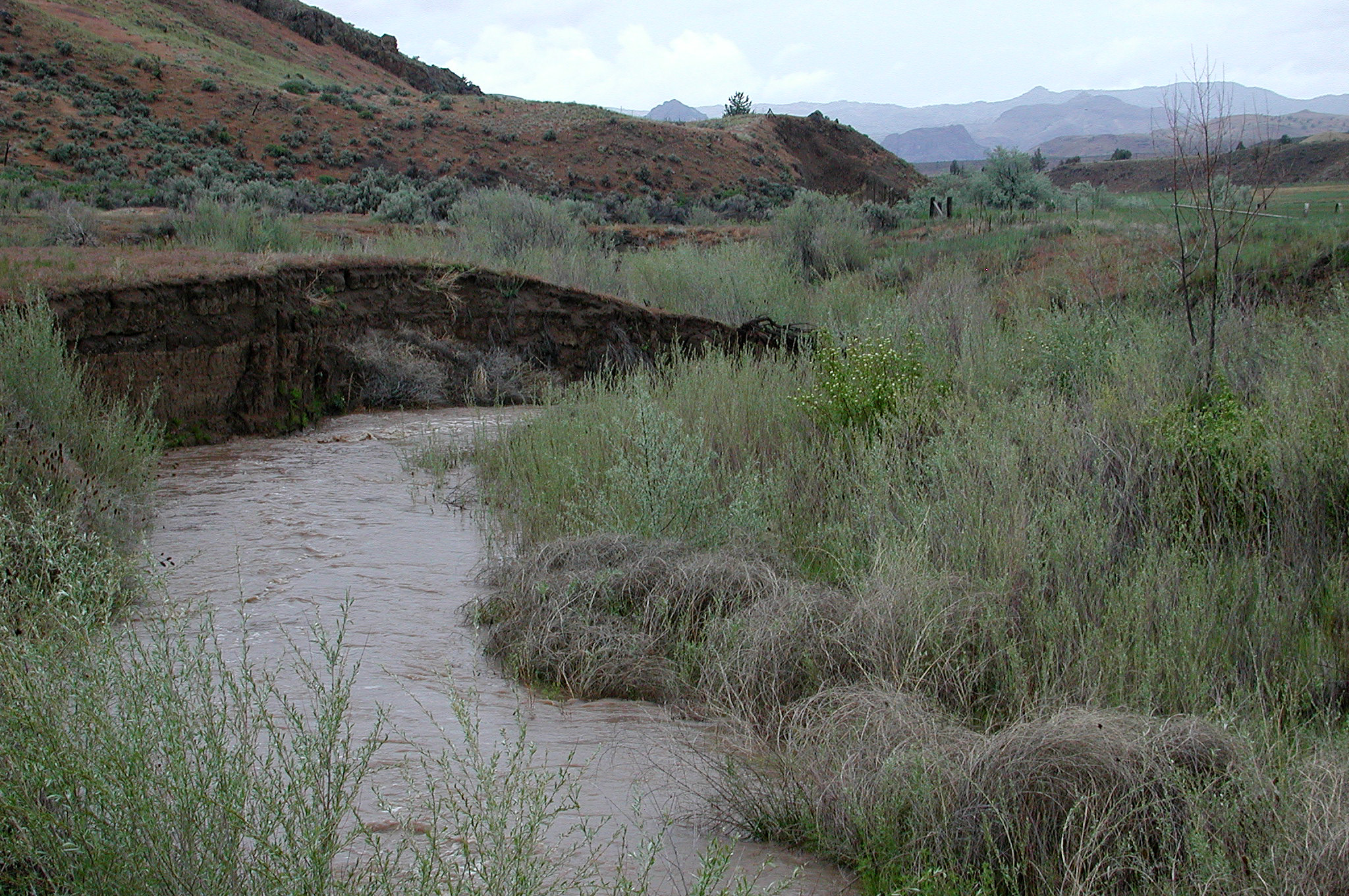 Bridge Creek in the Painted Hills unit of the John Day Fossil Beds National Monument near Mitchell, Oregon. Looking downstream, roughly north, from the picnic area along the creek.